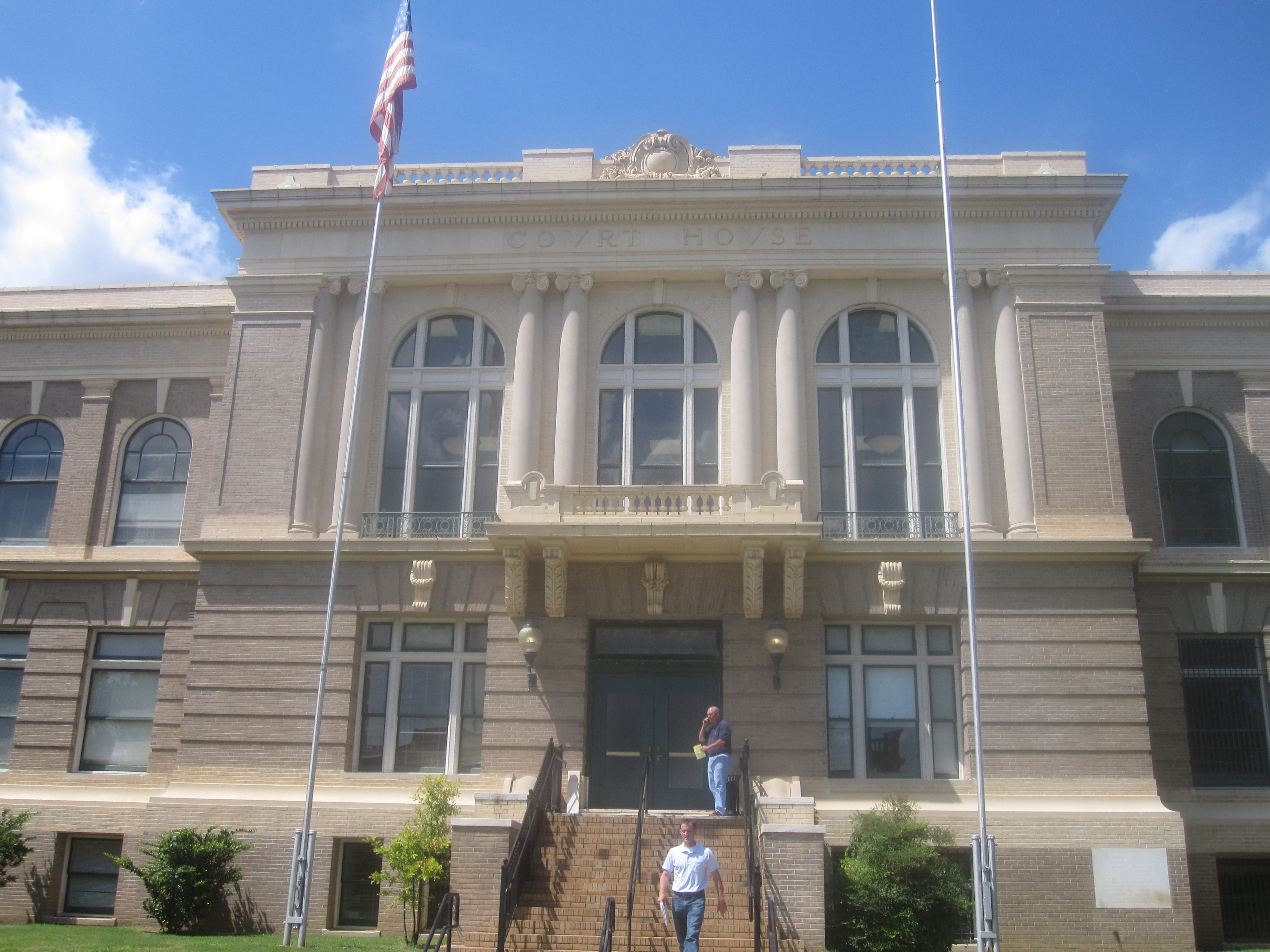 De Soto Parish, Louisiana Courthouse in Mansfield, LA